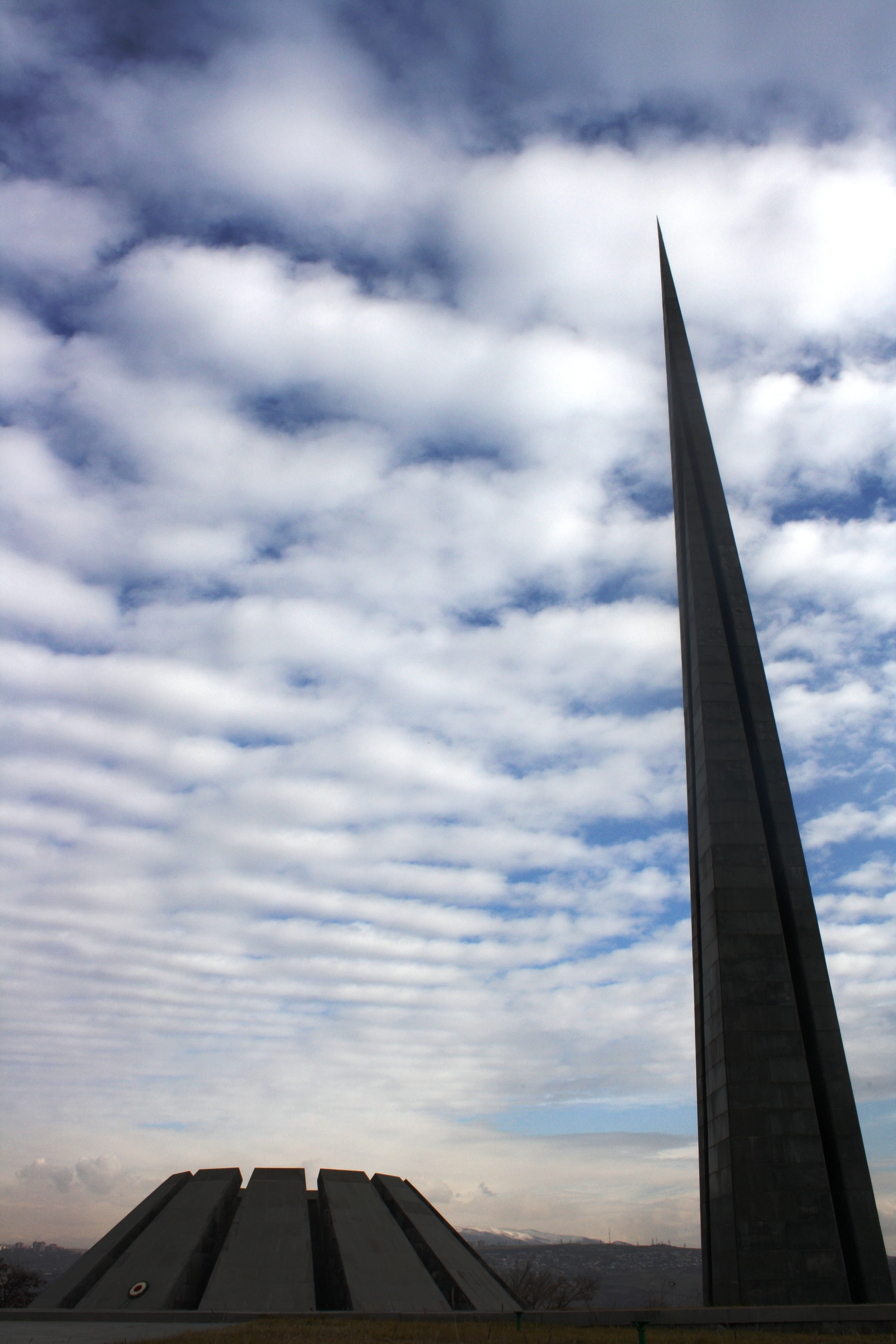 The Armenian Genocide memorial complex on the hill of Tsitsernakaberd in Yerevan, Armenia